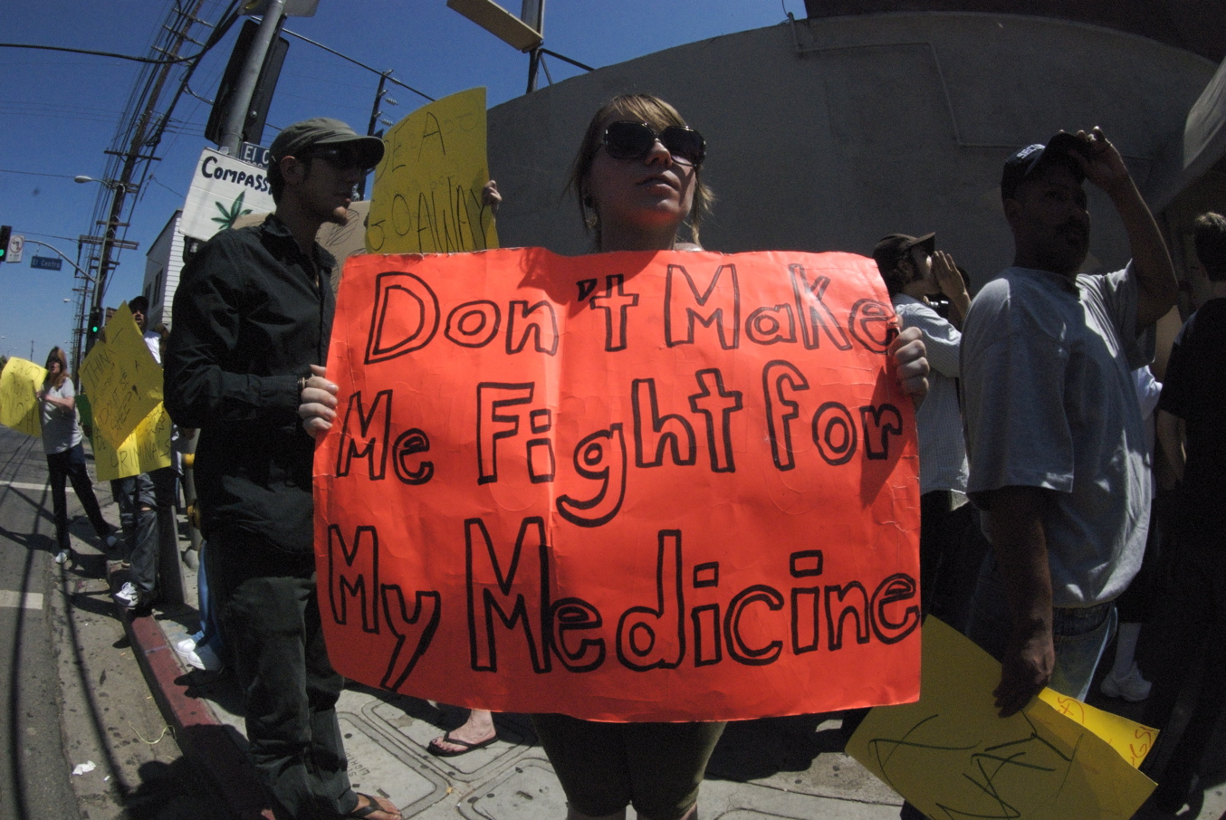 DEA raid on a medical marijuana dispensary in Hollywood, California. Description is from the Flickr photo set.